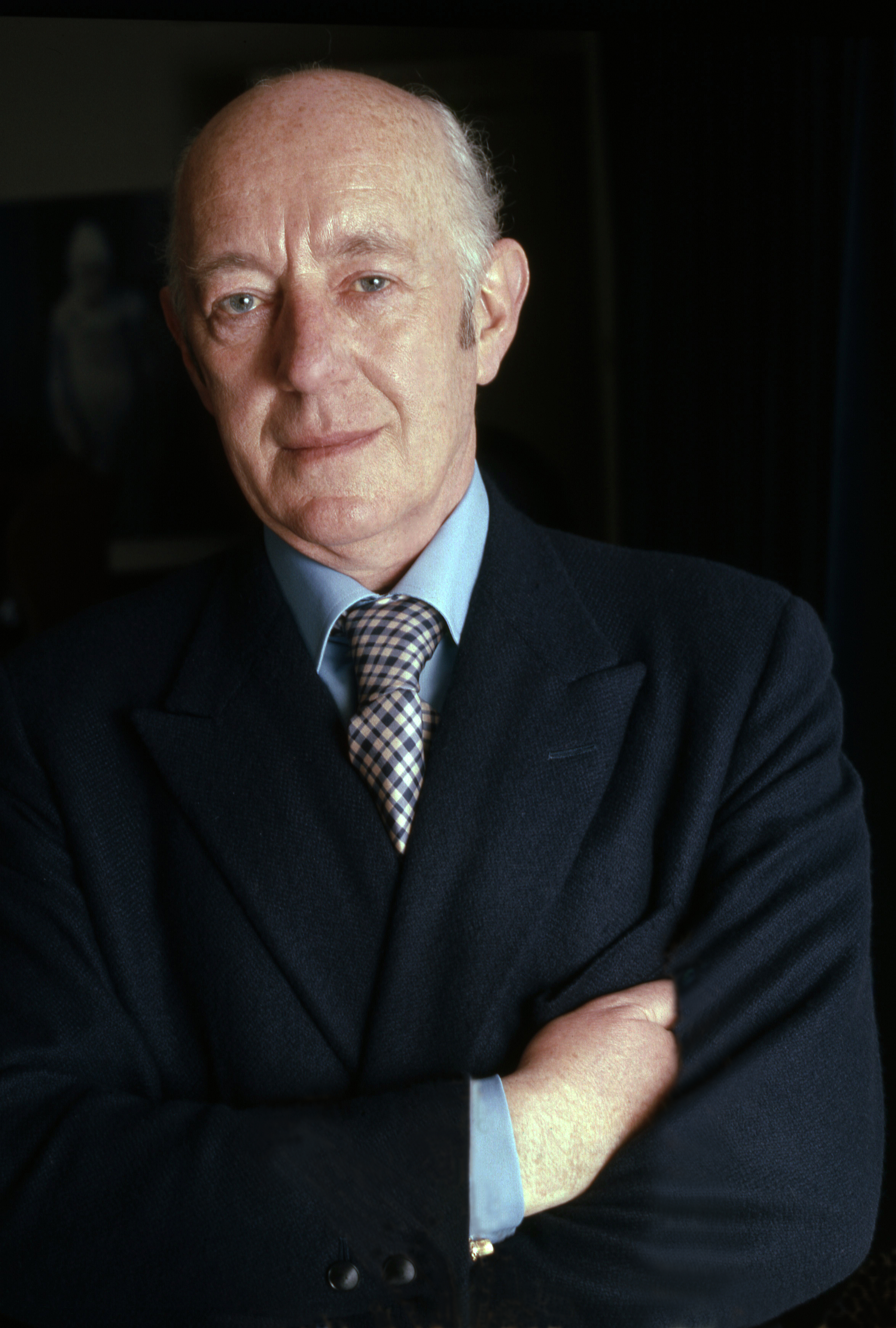 Sir Alec Guinness taken photographer's studio London